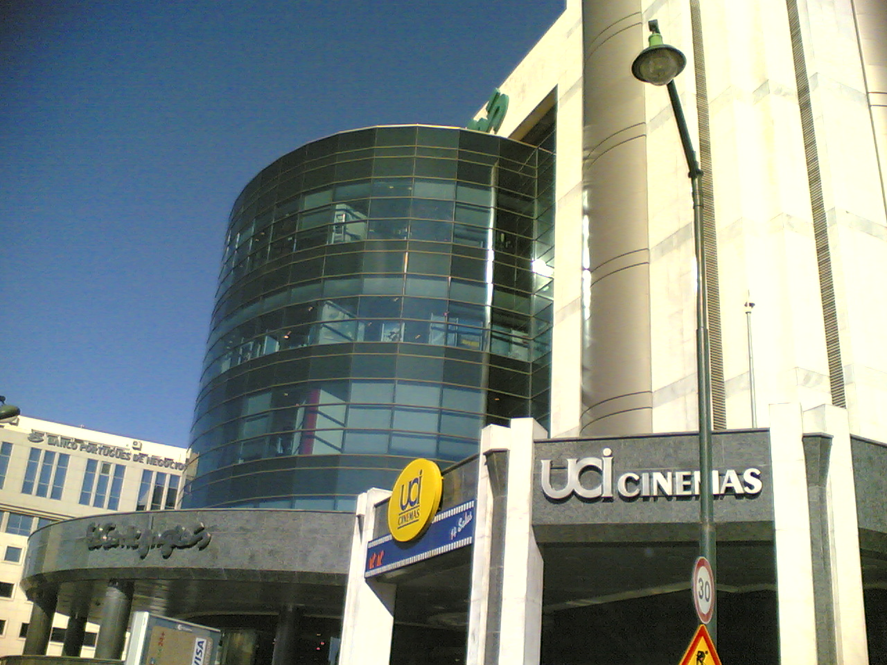 The El Corte Inglés building in Lisbon, Portugal.